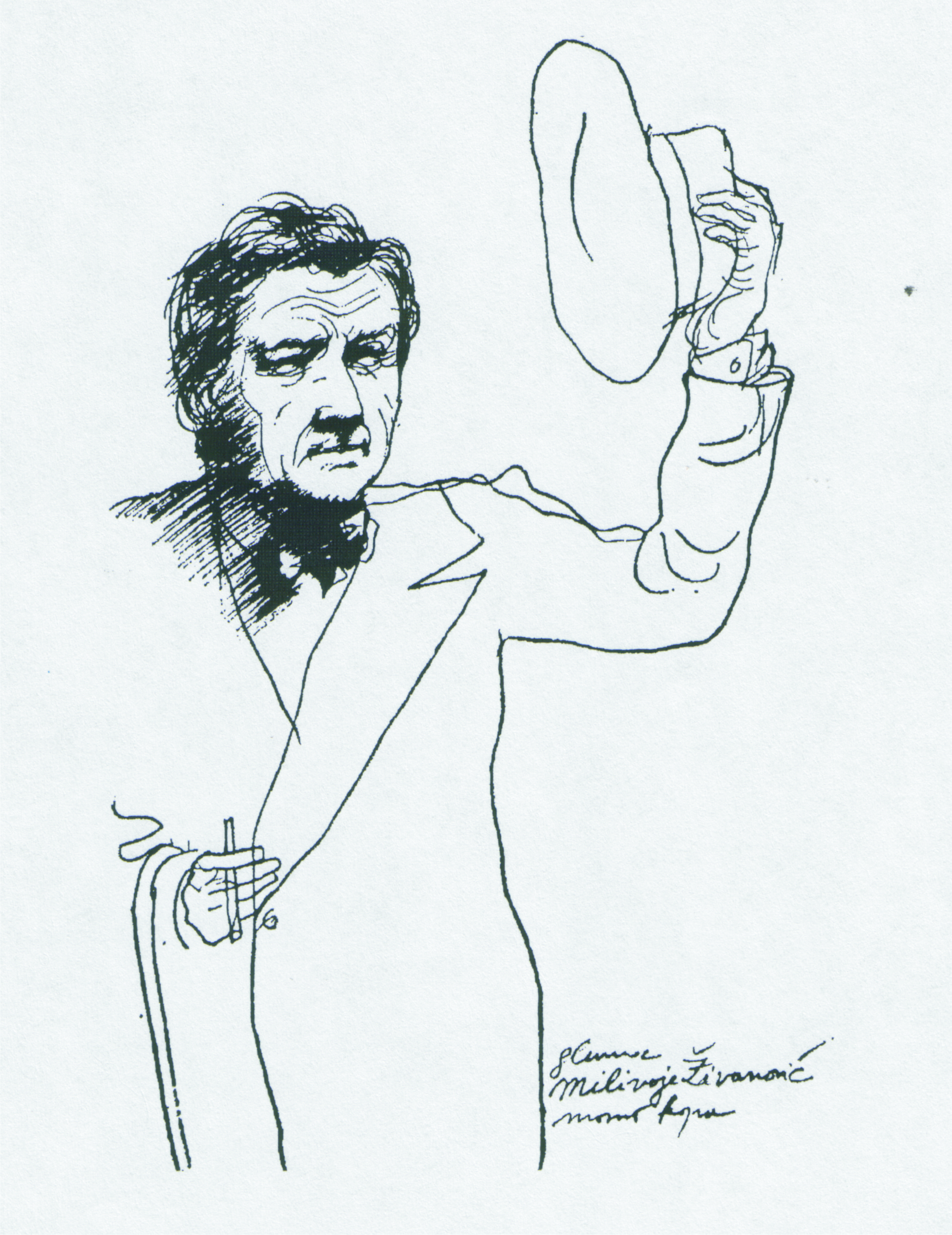 Milivoje Živanović, Momo Kapor's drawing